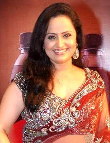 Vaishnavi Mahant at Gold Awards 2013